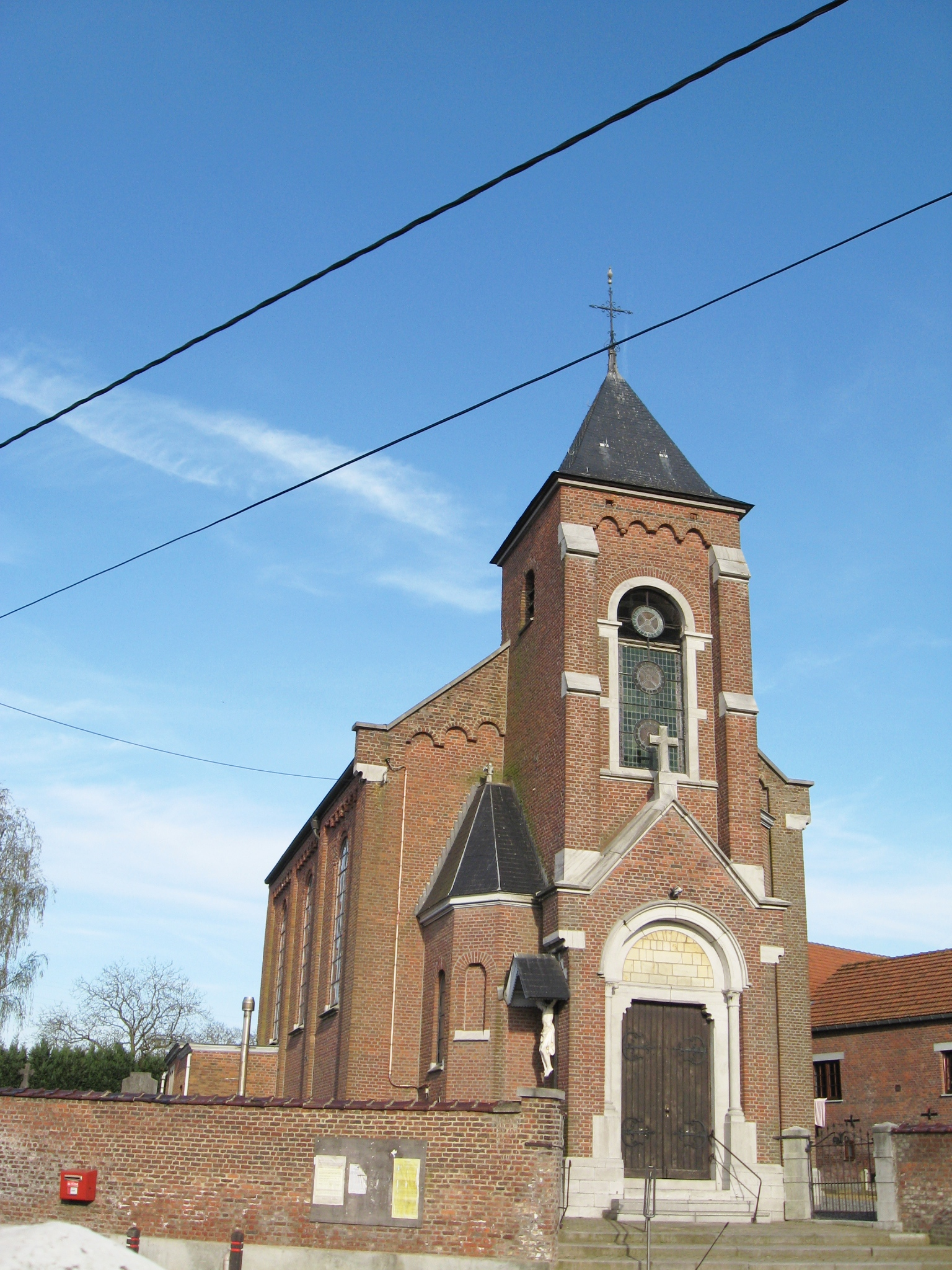 Church of Saint Lawrence in Rosoux-Crenwick (Crenwick), Berloz, Liège, Belgium